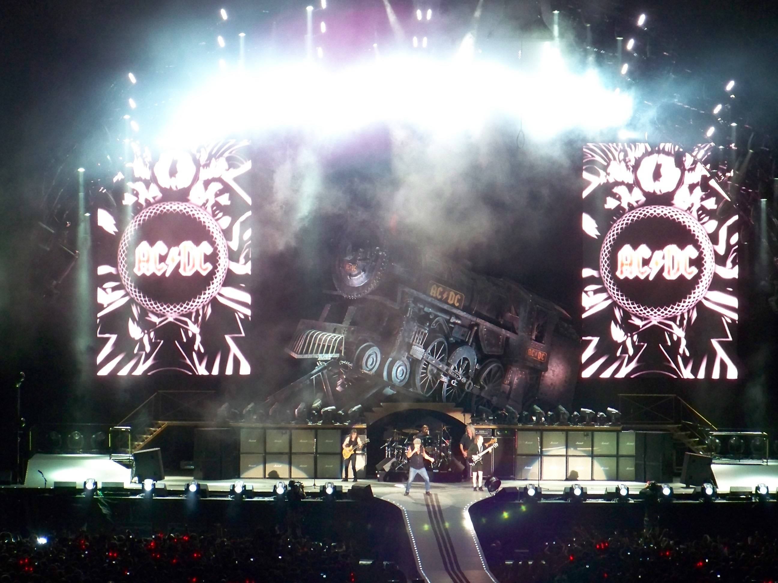 AC/DC Madrid